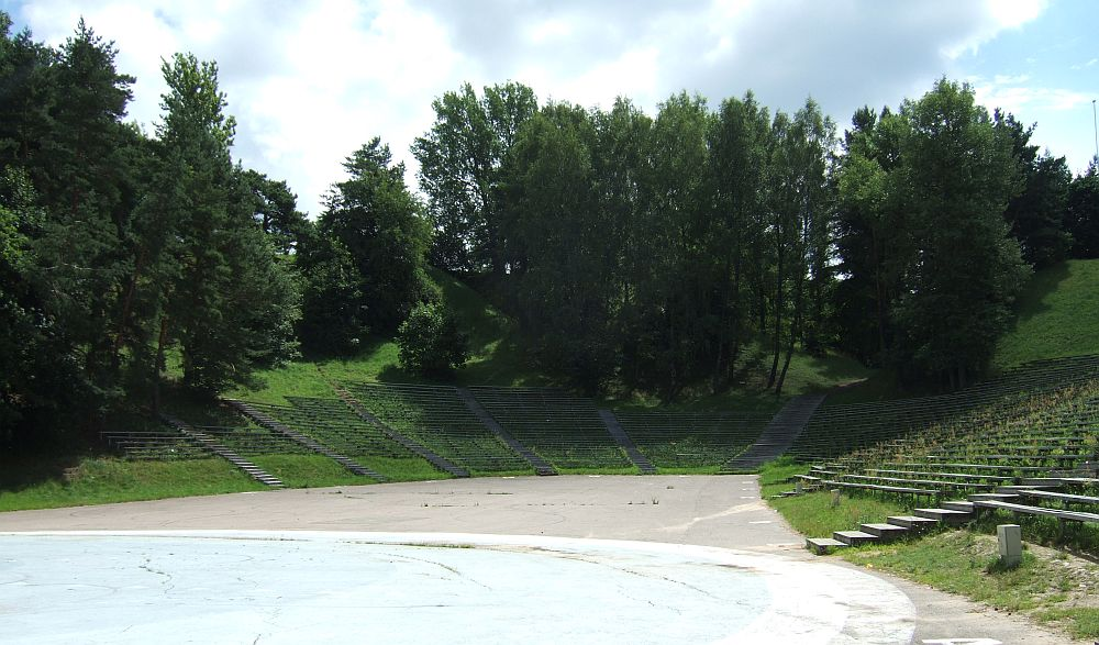 Kalnų parkas (Lithuania)